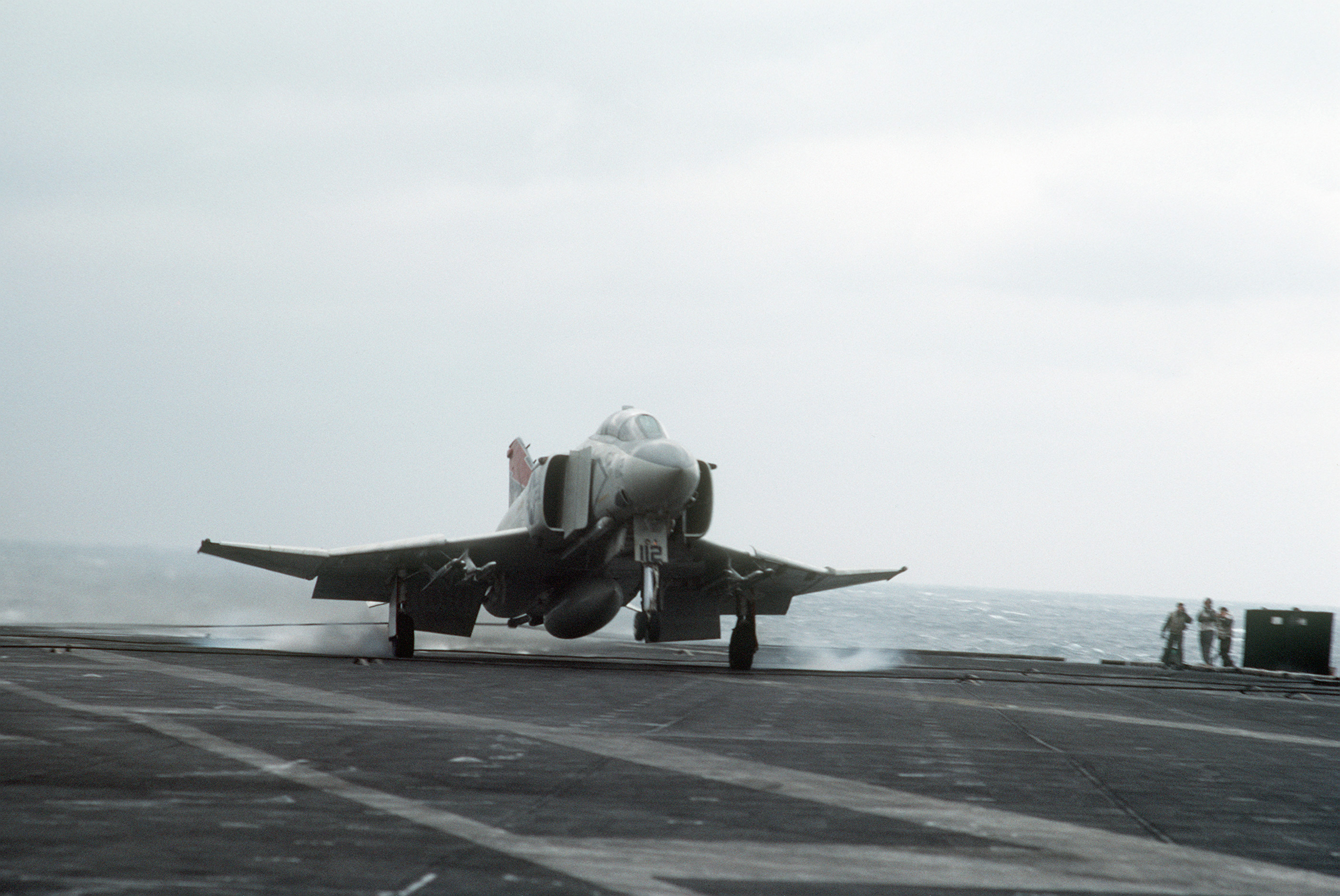 A U.S. Navy McDonnell Douglas F-4S Phantom II (BuNo 155880) of fighter squadron VF-161 Chargers making an arrested landing aboard the aircraft carrier USS Midway (CV-41) in 1 March 1985.